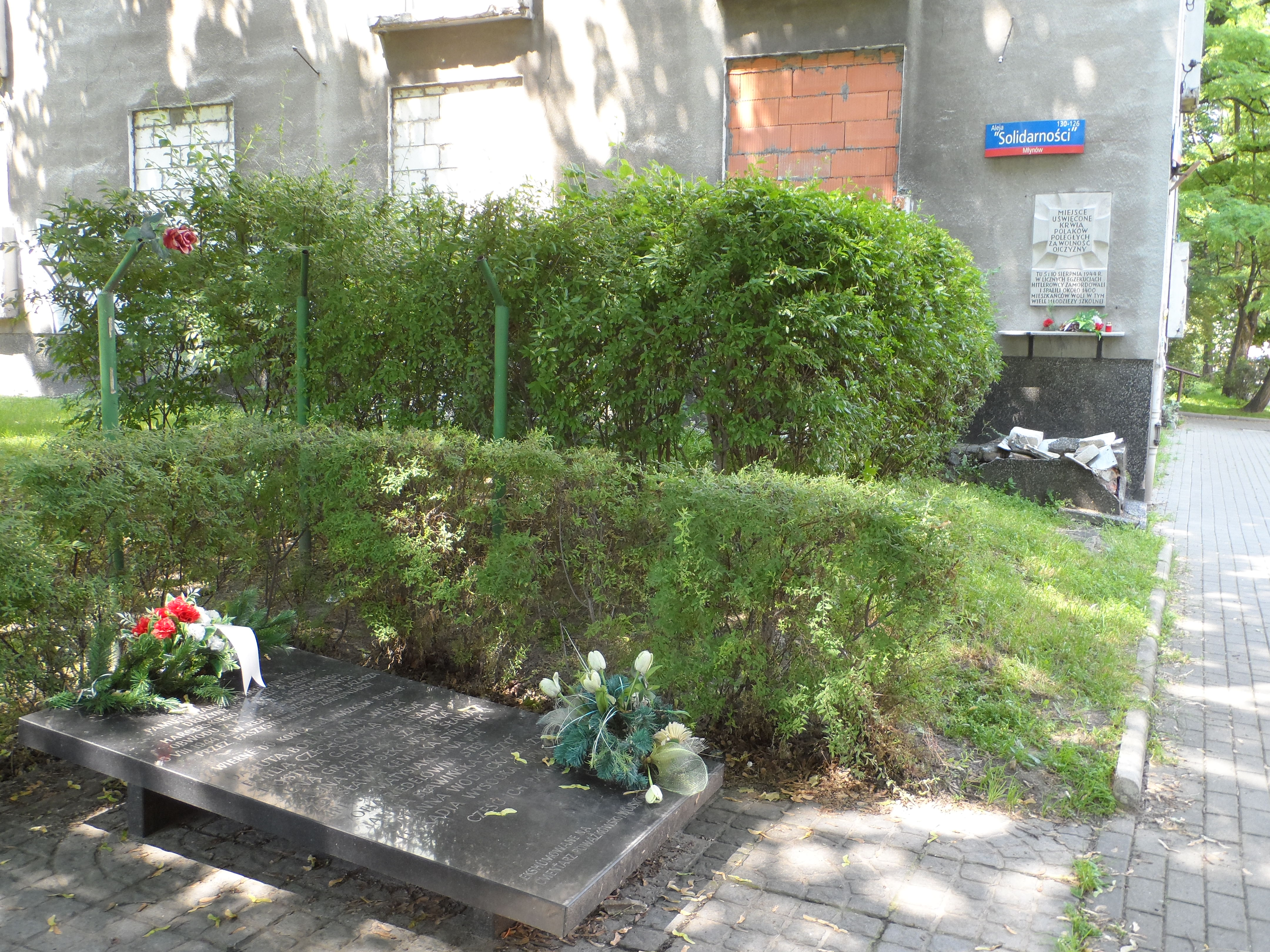 Plaque at 53 Karolkowa Street in Warsaw (as seen from Solidarności Avenue) commemorating almost 1400 Polish civilians (mostly patients of St. Lazarus Hospital) murdered in this place by German troops on 5th August 1944 - during so-called Wola Massacre (5th August 1944 – fifth day of Warsaw Uprising). Among the victims were also eleven Polish Girl Scouts (commemorate by the plate in the foreground).